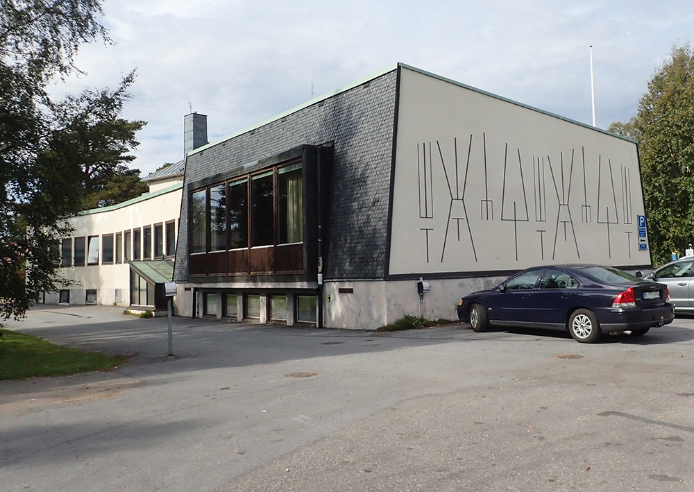 The old Municipality house of Hörnefors, designed by the architects Axel Grönwall and Ernst Hirsch in 1955 and inaugurated in December 1957.